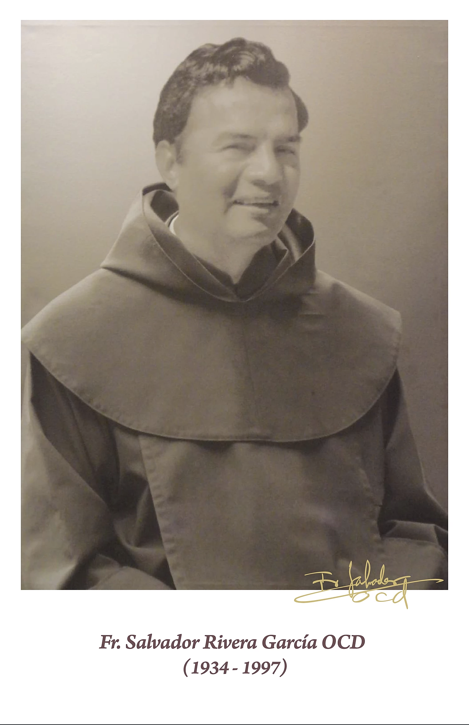 Imagen del Padre Chavita, sacerdote carmelita carmelita descalzo mexicano